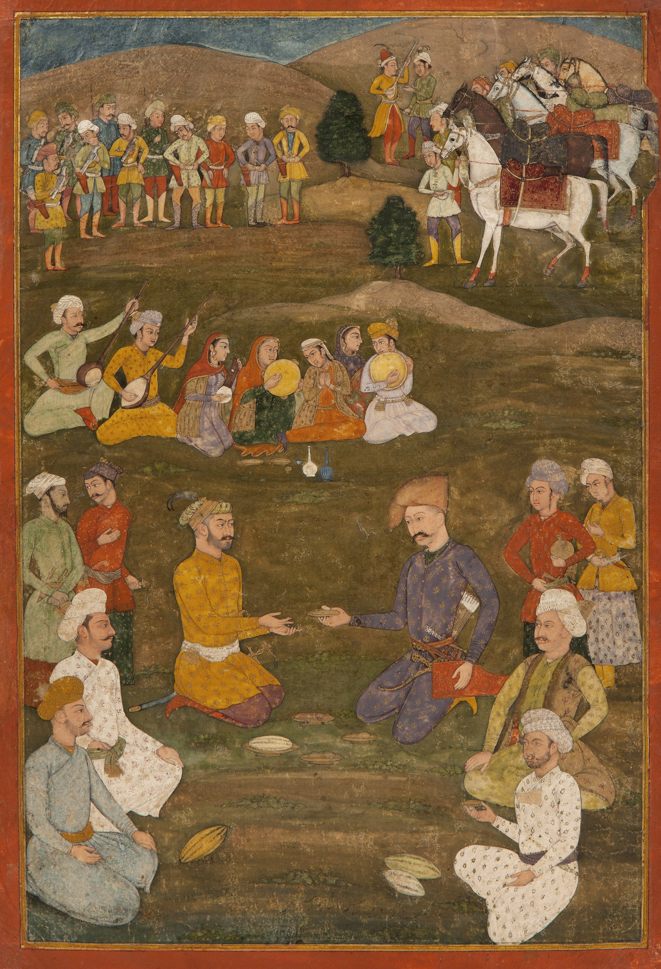 This painting is depicting Shah Abbas receiving the Mughal ambassador Khan ‘ Alam in 1618. Shah Abbas sits to the right of the composition in the middle of a hilly landscape offering a gold wine cup to the Mughal ambassador. Their suite composed by dignitaries, musicians and pages surrounds them. A nasta’liq inscription identifying the scene has been rubbed at the bottom of the painting. A closely related painting of a later date is kept in the collection of the British Museum and published in: Canby, S. (2009) Shah ‘Abbas – The Remaking of Iran, London: The British Museum Press, p. 63. Our painting might be the prototype for the British Museum’s painting. Another painting related in the treatment of the composition and the figures, recently acquired by the Custodia Foundation, is ascribed to the painter Farhad (Inv. 2009-T.23).